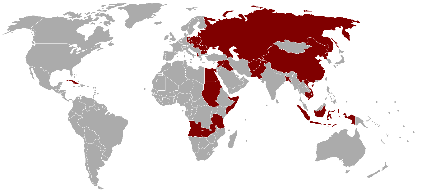 Mig-19 operators, based on list on Mikoyan-Gurevich MiG-19. Uses cold war map from Image:BlankMap-World-1985.png